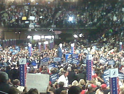 John McCain giving his acceptance speech, w:2008 Republican National Convention in Saint Paul, Minnesota